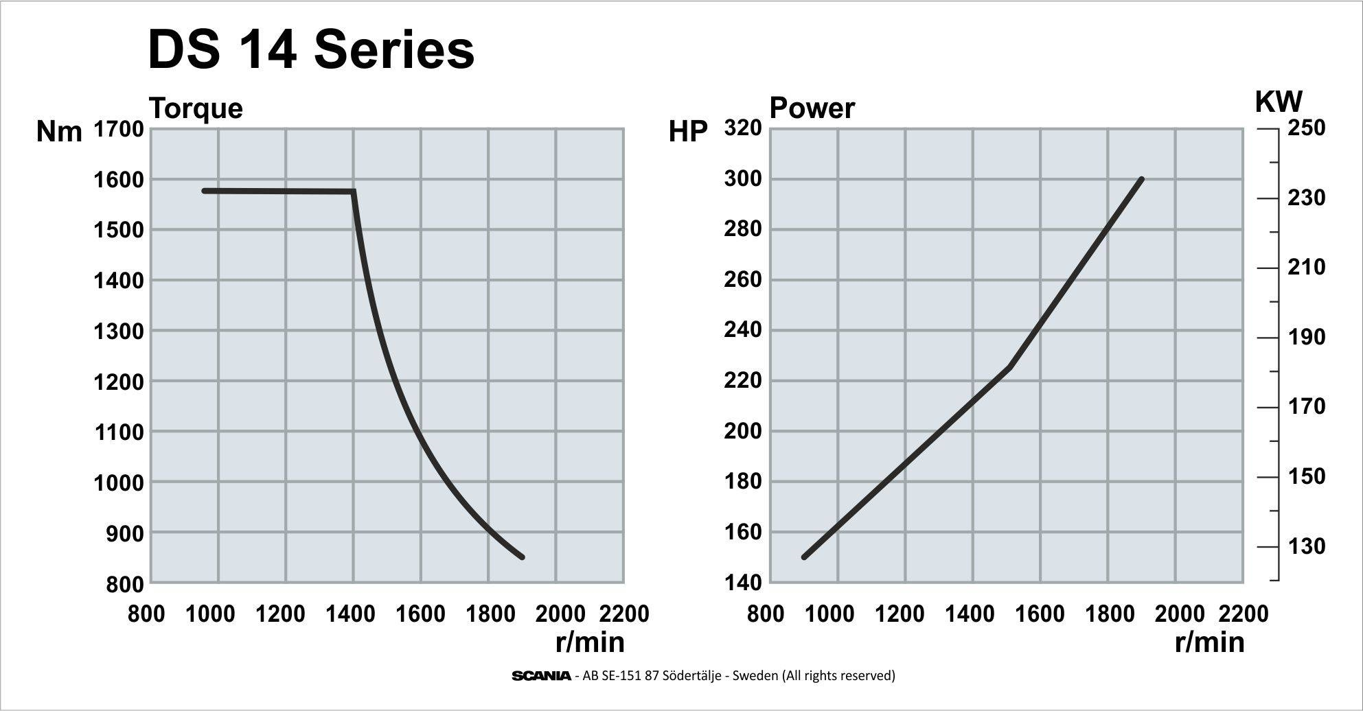 Engine Power